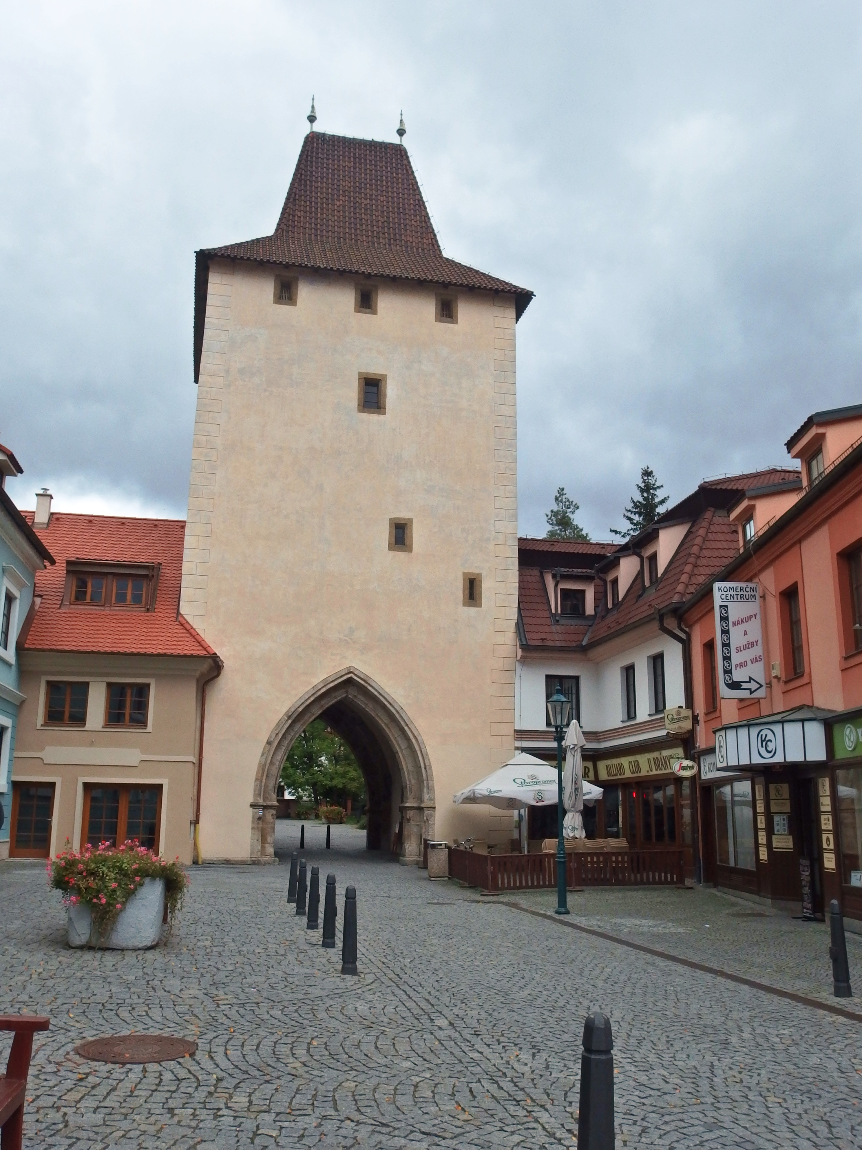 Beroun, Czechia.